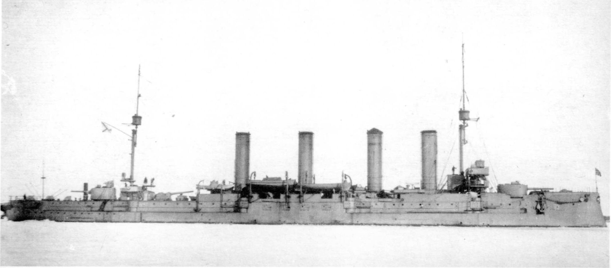 Russian armoured cruiser Admiral Makarov, 1917.